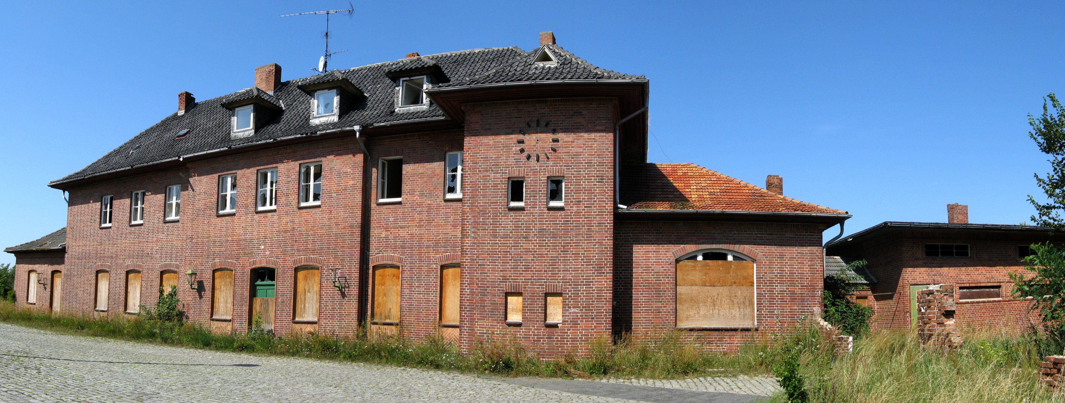 Former train station in Gnoien, disctrict Güstrow, Mecklenburg-Vorpommern, Germany